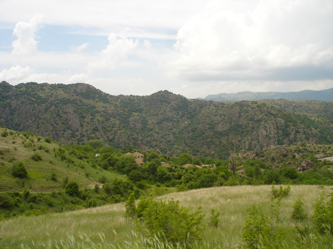 village of Manastir in Mariovo region, Macedonia